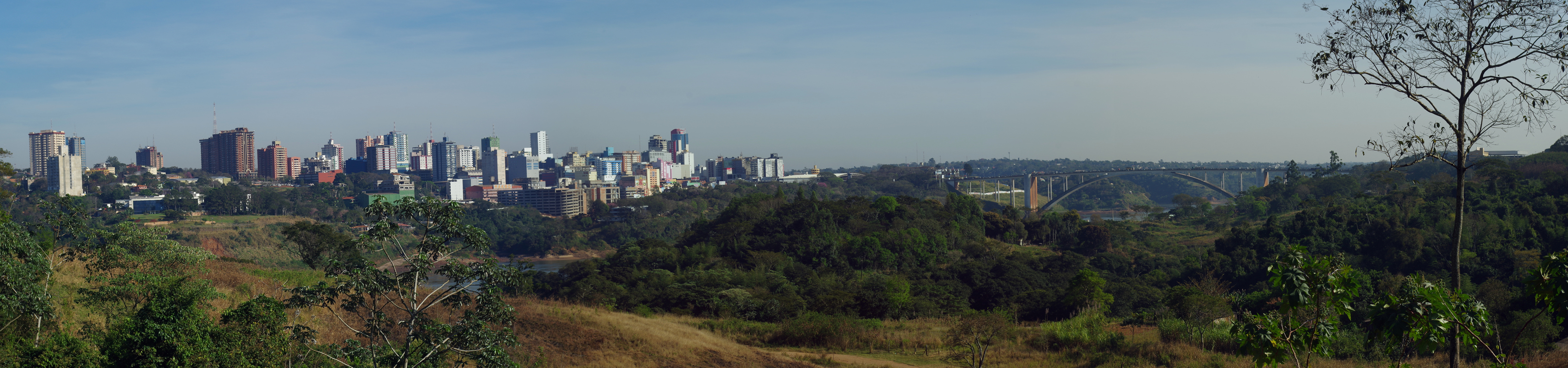 Panoramic view from Foz-Do-Iguasu at Cuidad-del-Este over Parana river. The Freedom Bridge is at the right.